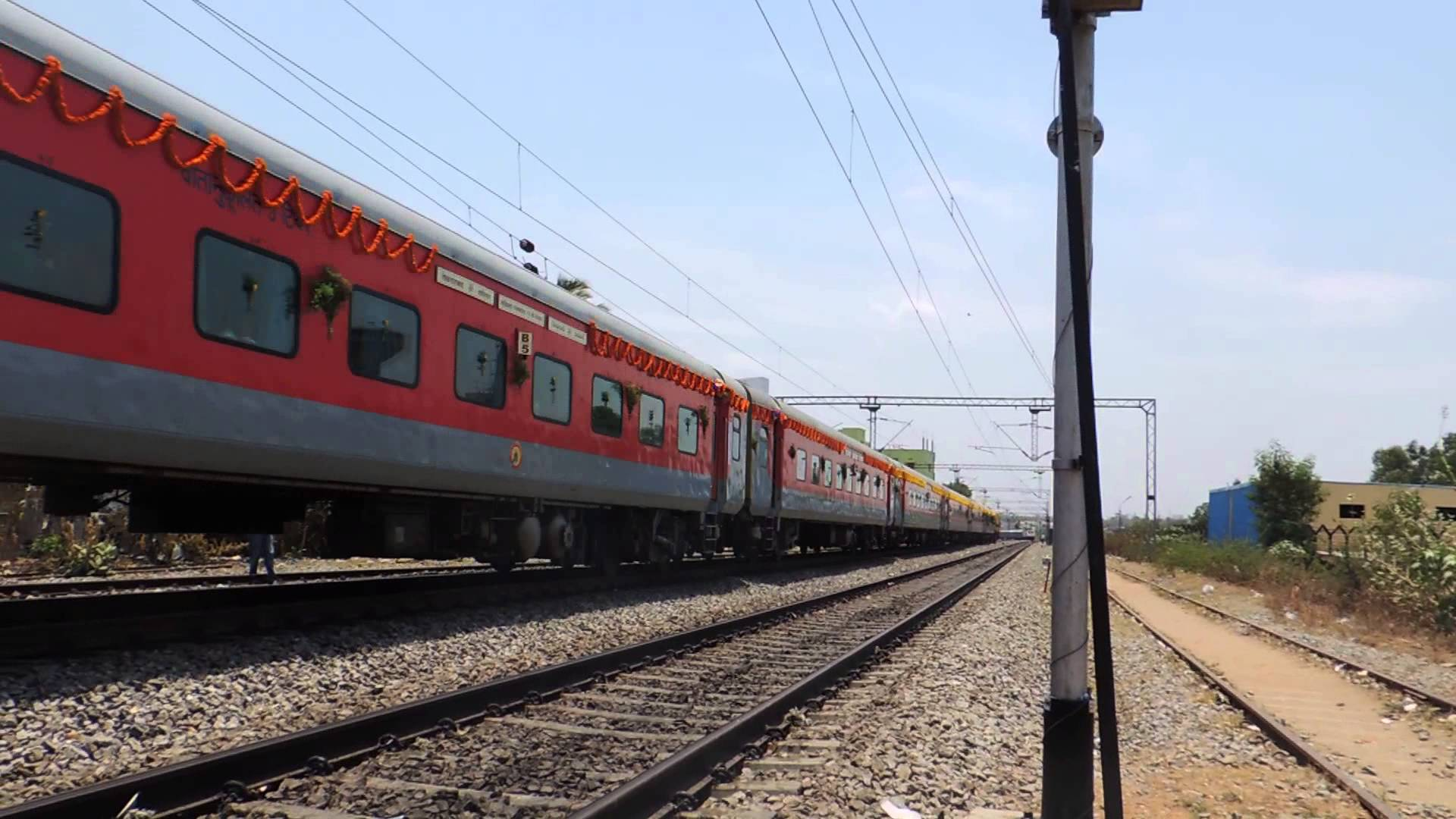 The Secunderabad Shalimar AC Express during its inaugural run.